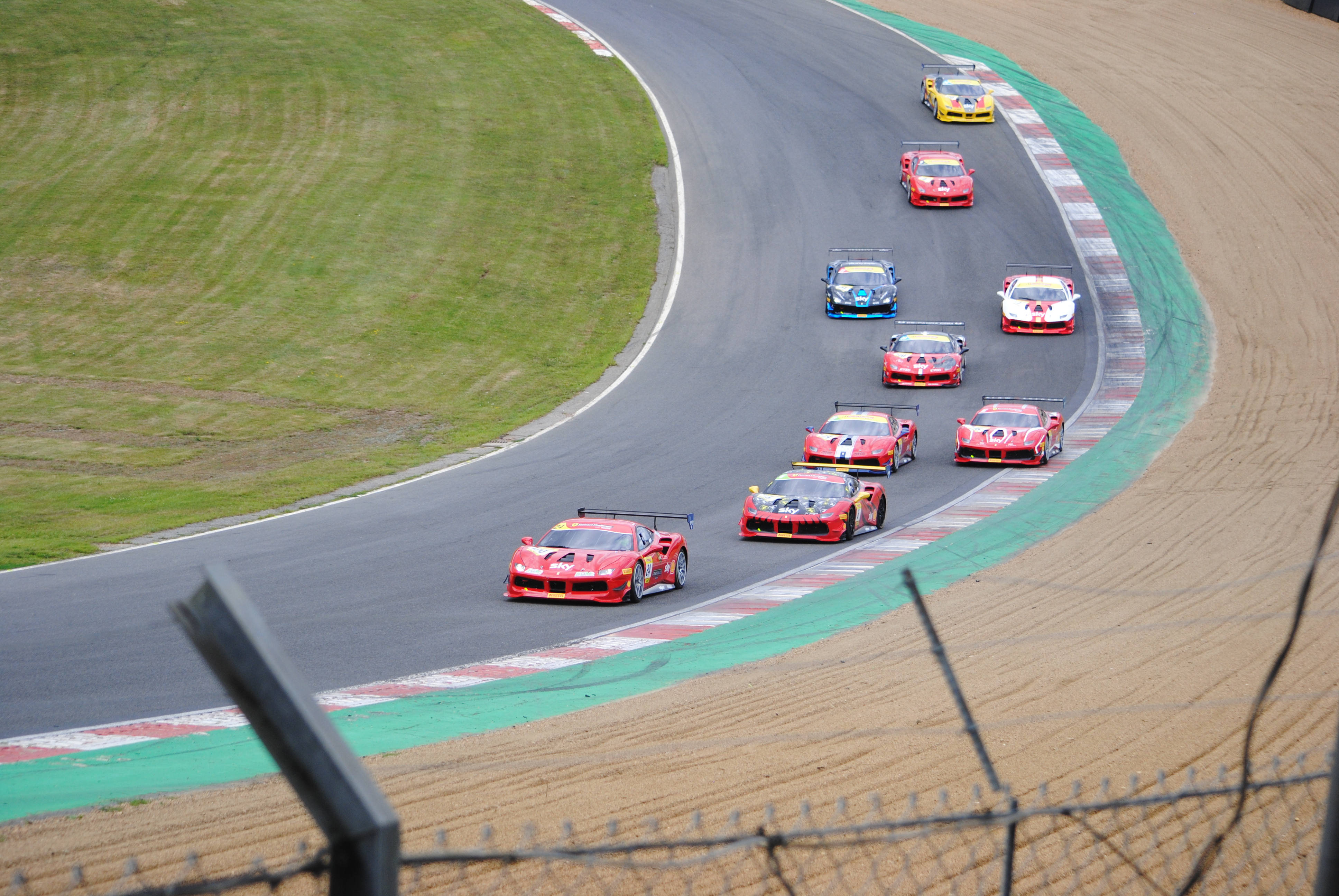 The start of the second race of the first 2020 Ferrari Challenge UK weekend at Brands Hatch.